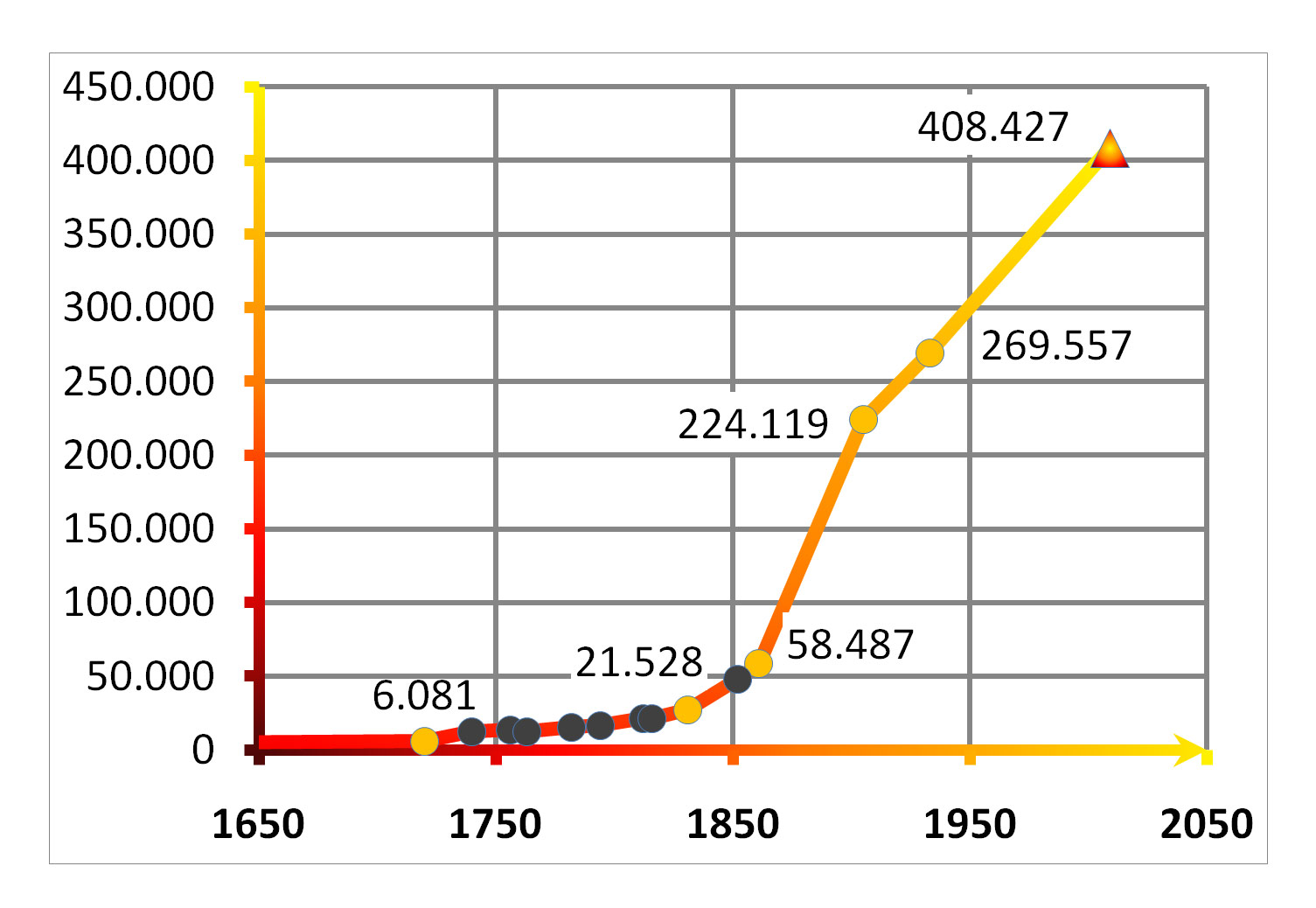 Trend of Number of Citizens of City Szczecin in Poland.